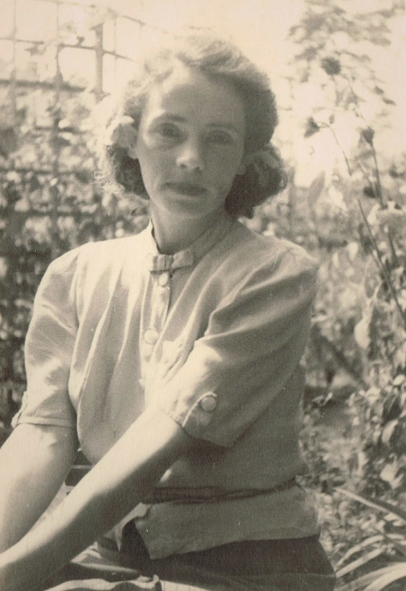 Cecylia Vetulani (1908–1980), Polish art historian and conservator-restorer, researcher in the field of Warmia and Masuria folk art and custodian of the Museum of Warmia and Mazury in Olsztyn, in her youth years.